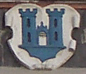 Ravensburg, Germany: Wappen am Rathaus (coat of arms)